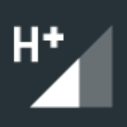 Android HSPA+ logo on android 6.0.1